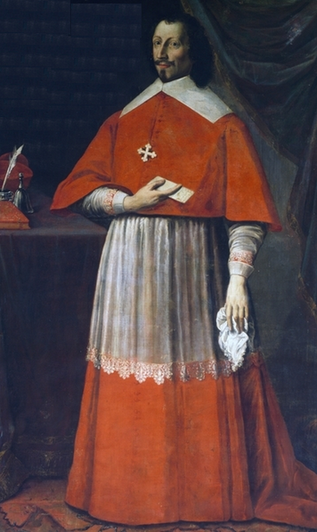 Portrait of Prince Maurice of Savoy (1593-1657)